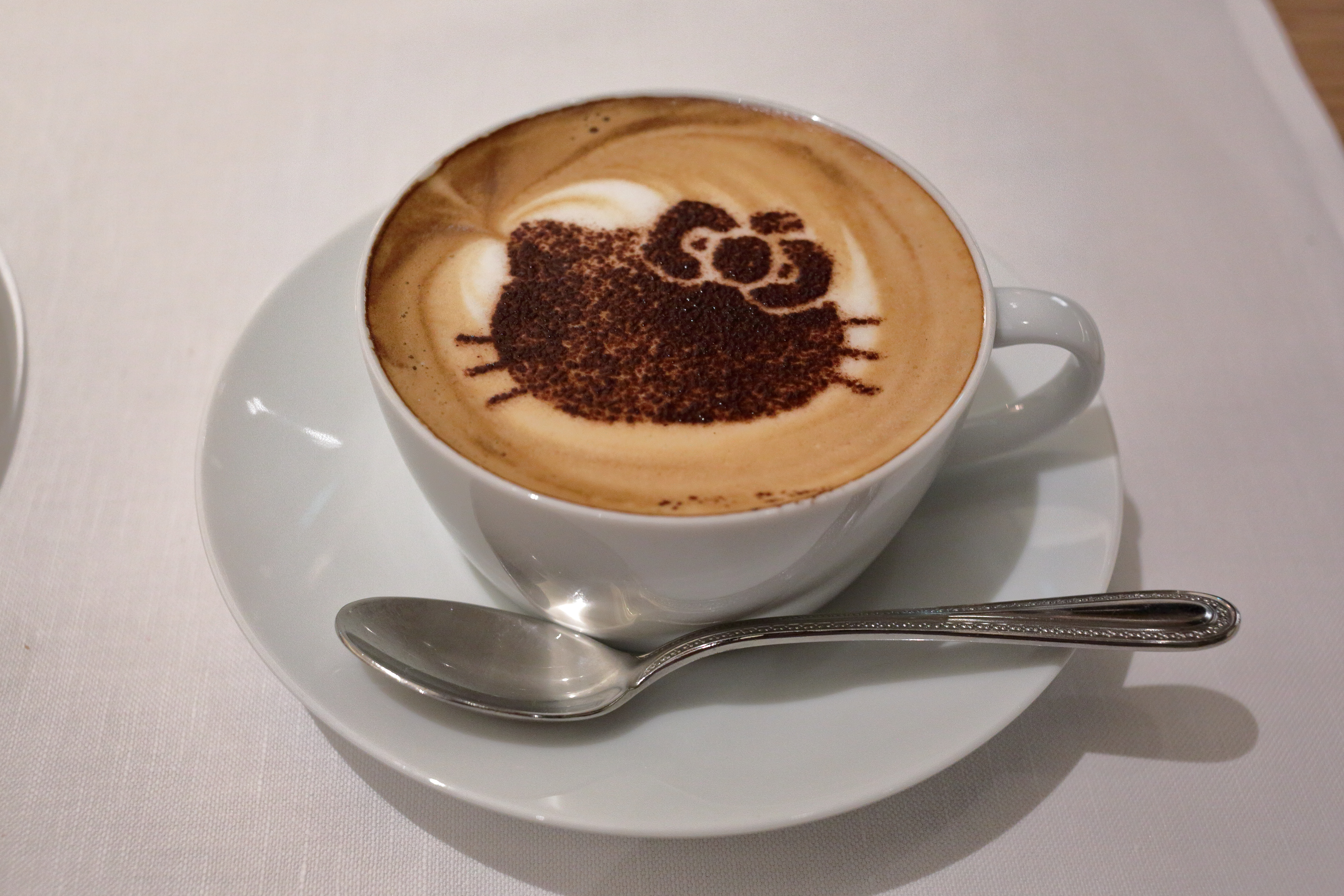 Coffee with Hello Kitty pattern